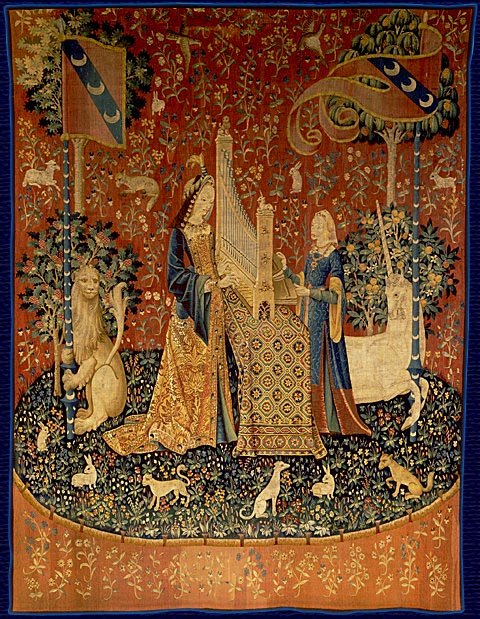 The Lady and the Unicorn (French: La Dame à la licorne) also called the Tapestry Cycle is the title of a series of six Flemish tapestries depicting the senses. They are estimated to have been woven in the late 15th century in the style of mille-fleurs. Approx 369 x 290 cm